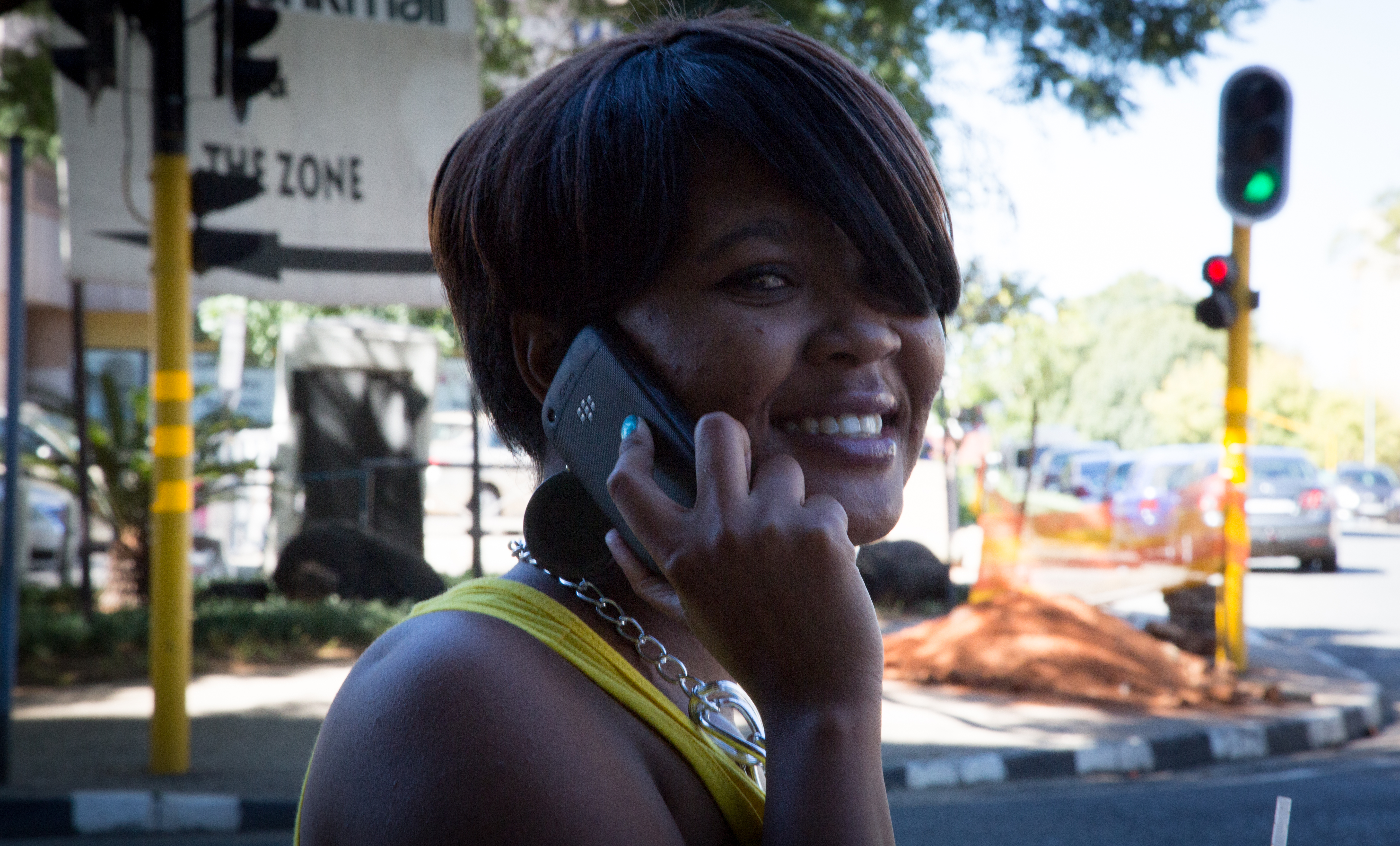 Wikipedia Zerp Campaign in Africa